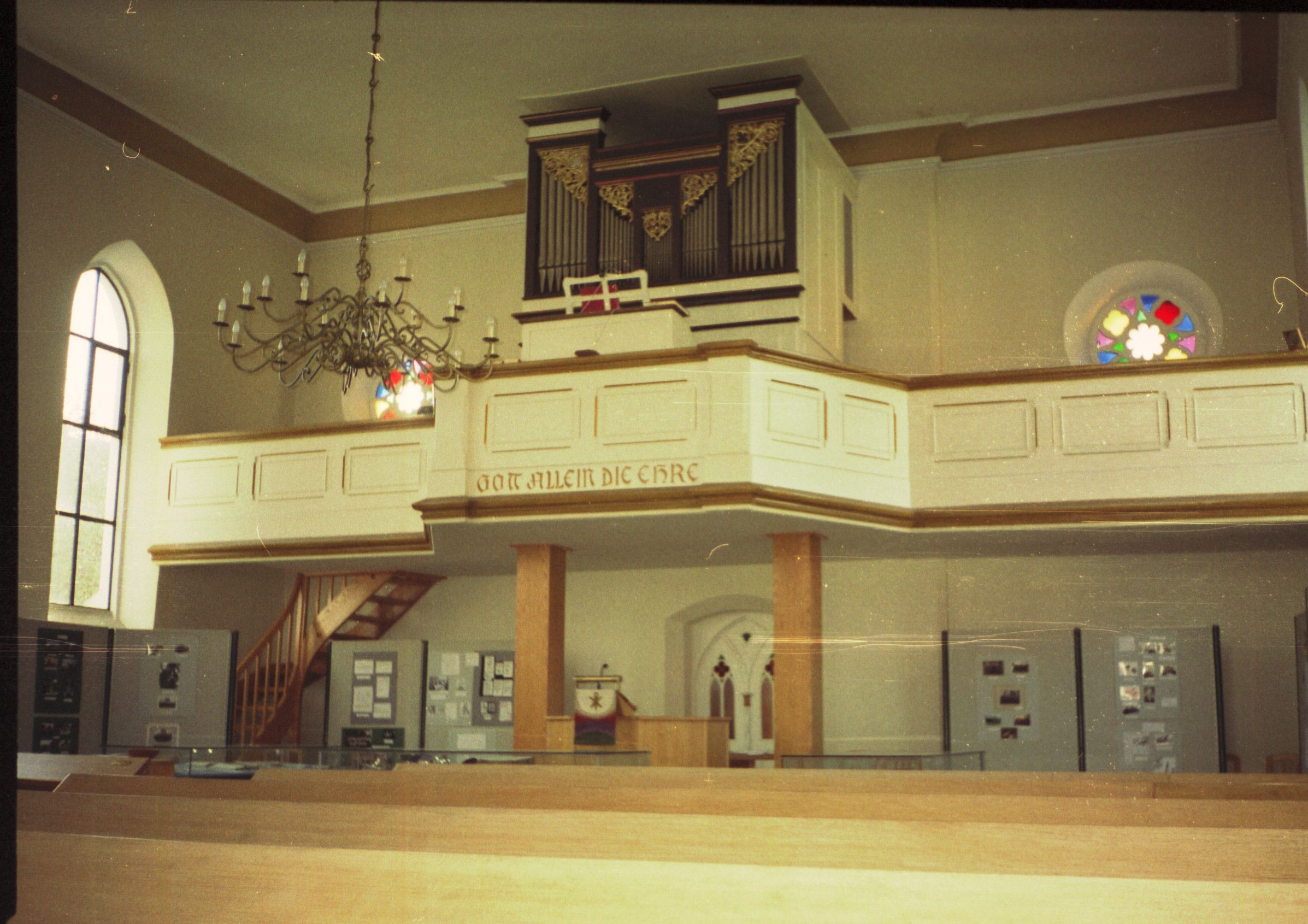 Das Kircheninnere von Maairenheim mit der Orgelempore